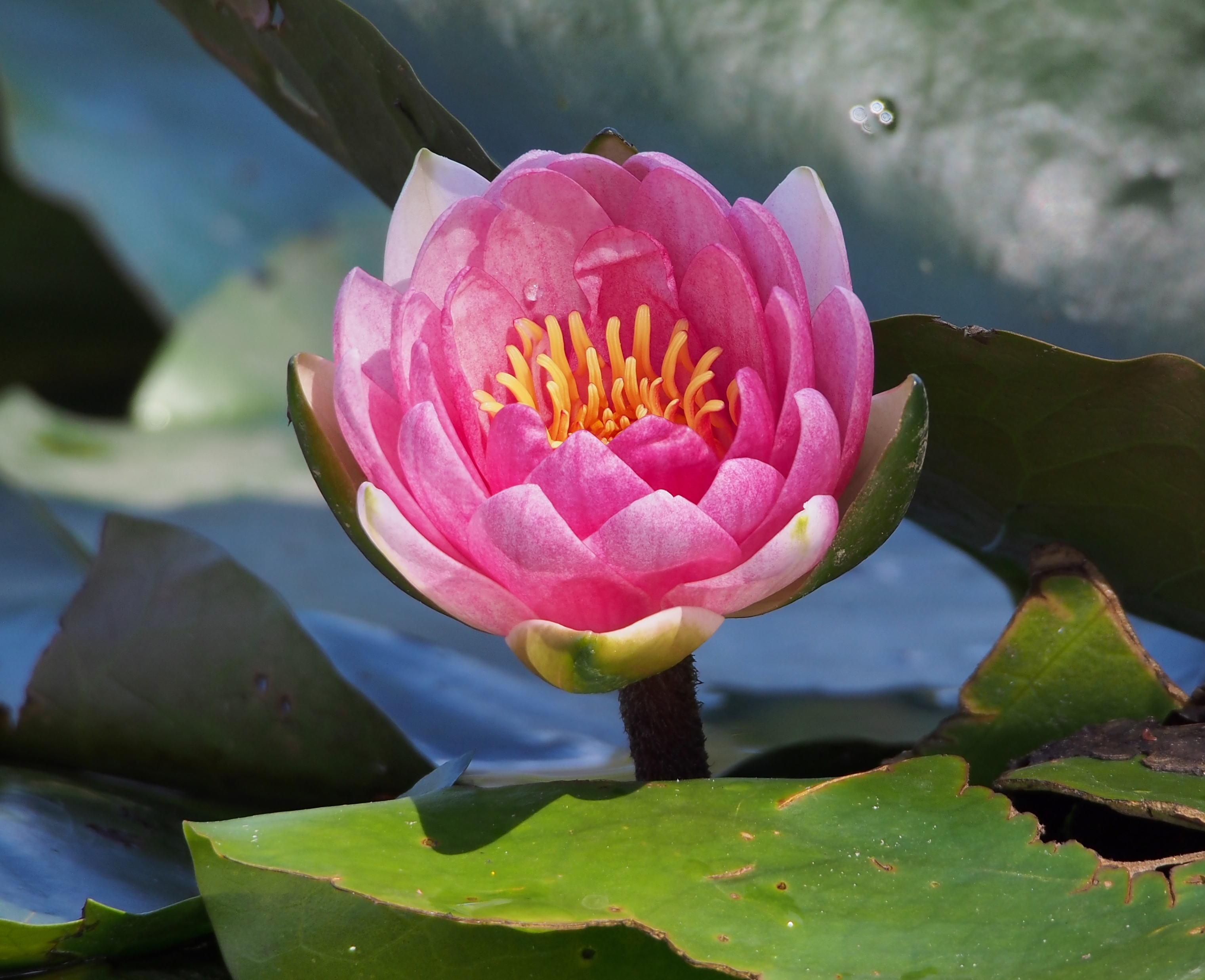 Nymphaea laydekeri purpurata, park Tivoli, Ljubljana, Slovenia. Stack of 2 telezoom images. This photograph was taken with an Olympus E-P5